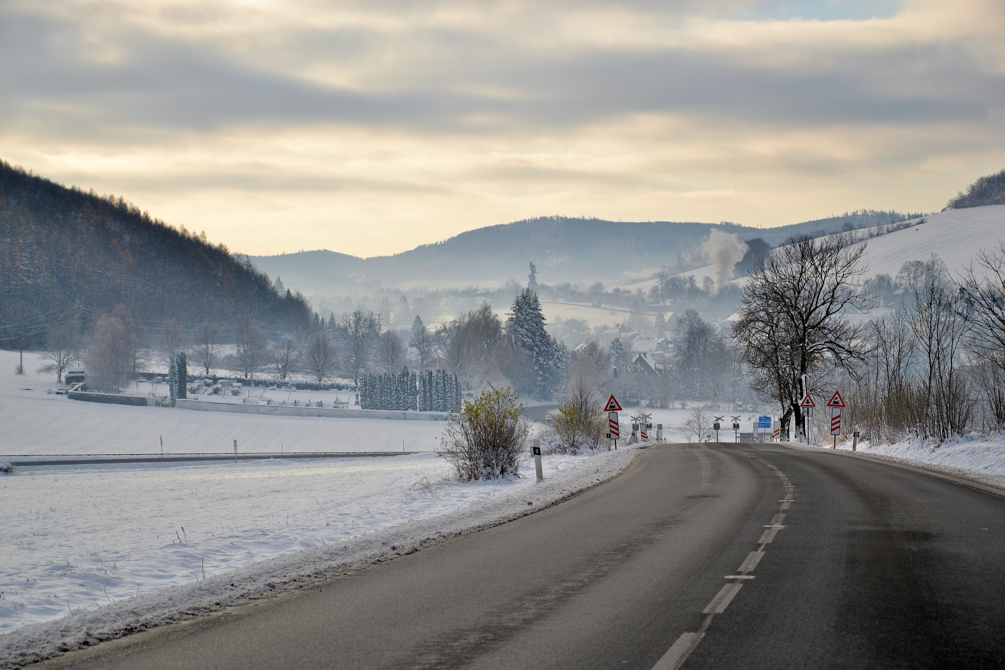 Winter in Třemešná (Röwersdorf), Czech Republic.